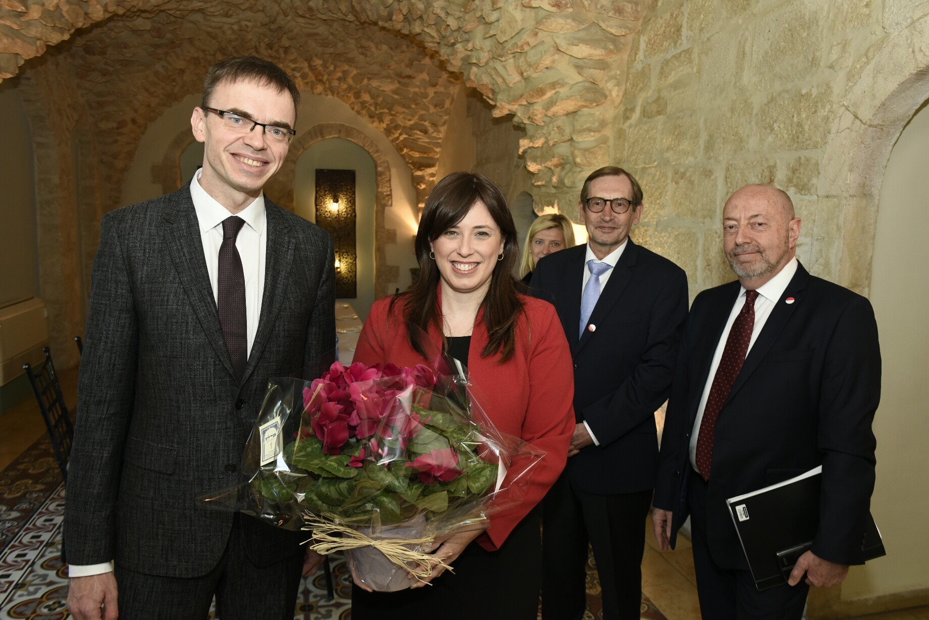 Meeting with deputy foreign minister of Israel Tzipi Hotovely Sven Mikser visit to Israel, March 2017.